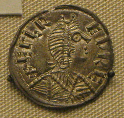 Silver coin of Alfred the Great. Coin is property of the British Museum. Ænglisc: Seolfring þæs cyninges Ælfredes. Hit is sundorfeoh þæs British Museum.